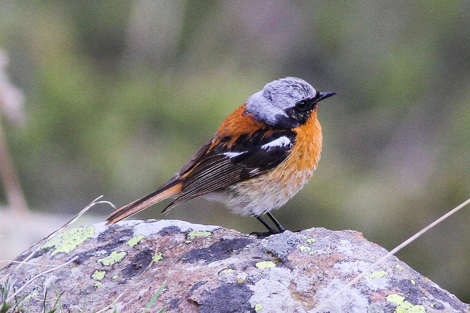 Tien Shan Observatory, Almaty